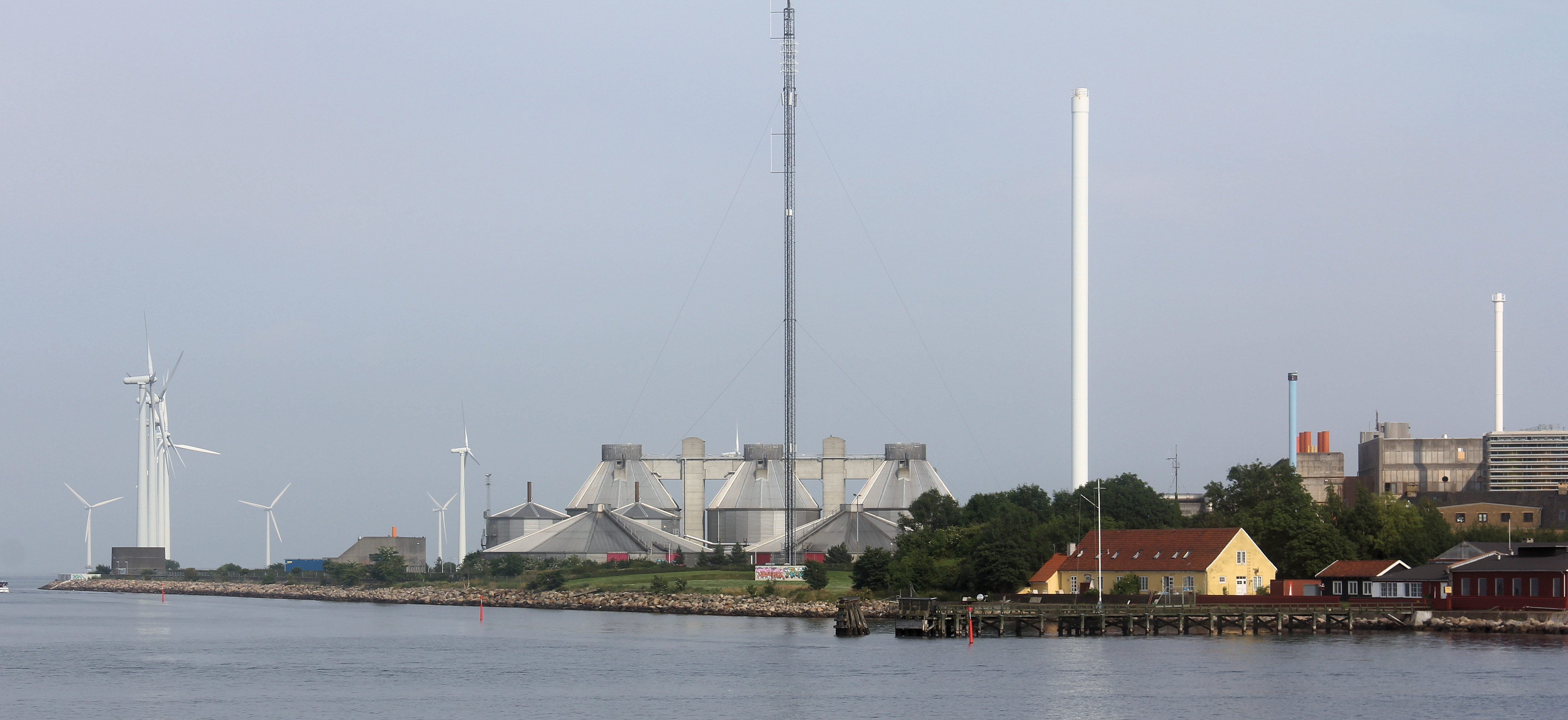 Lynetten, Copenhagen